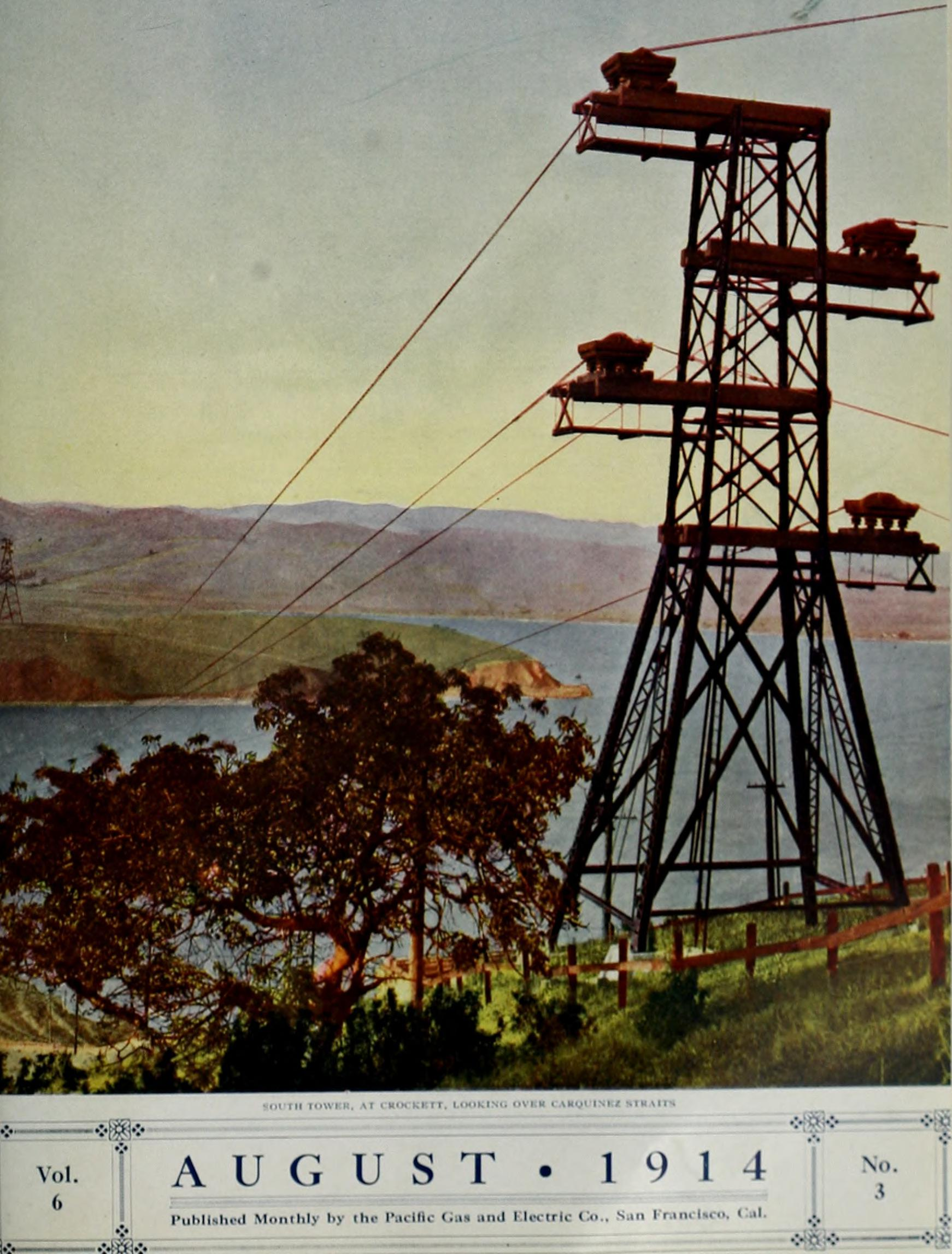 South Tower, at Crockett, looking over Carquinez straits; California – Carquinez Strait Powerline Crossing